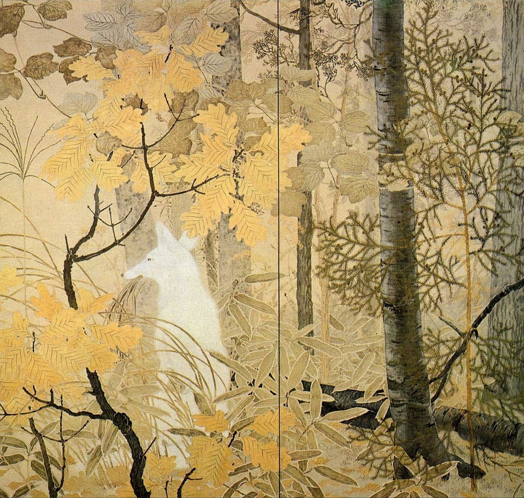 Paintng White Fox